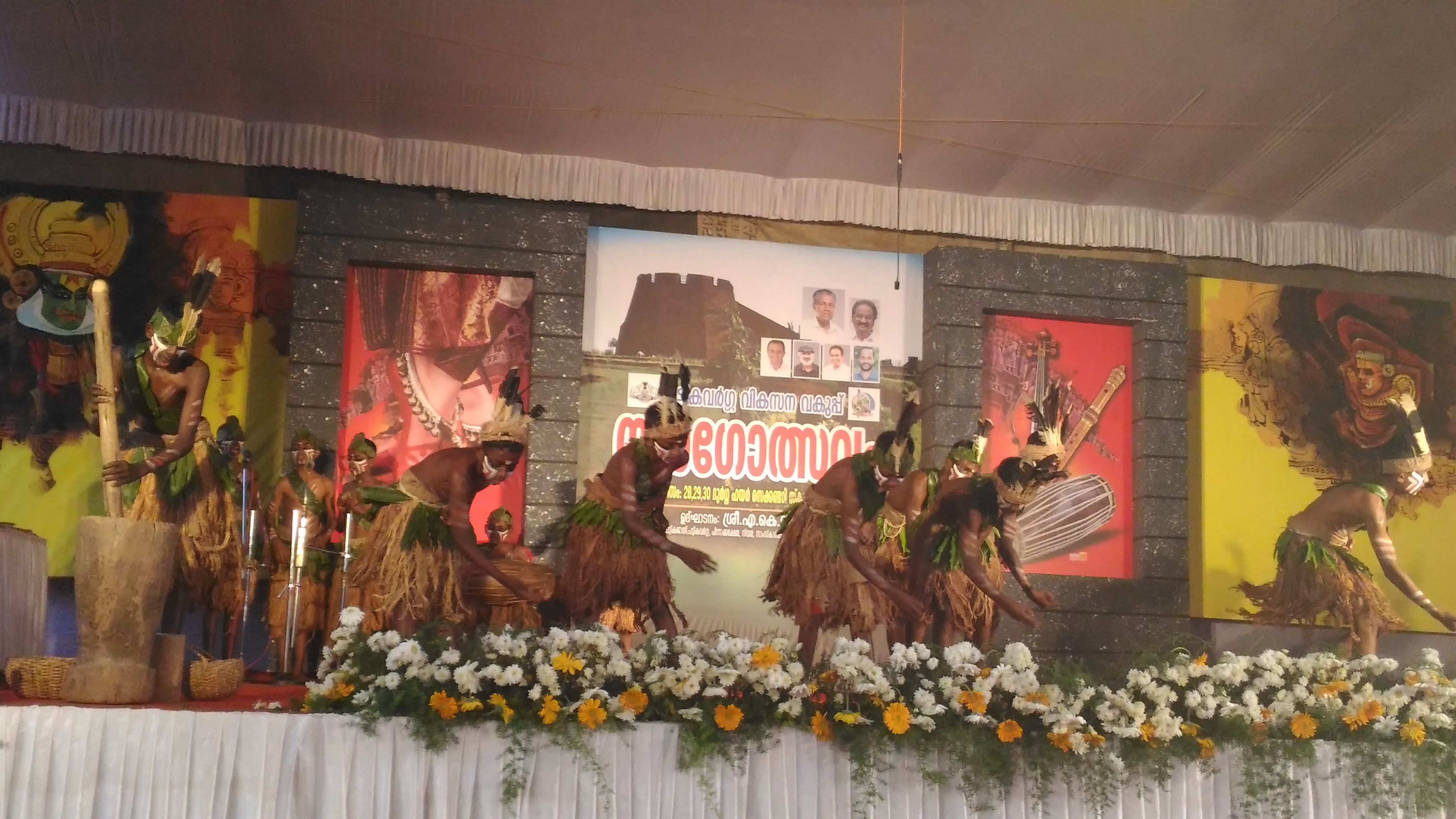 A folklore dance of the Tribes of Kerala